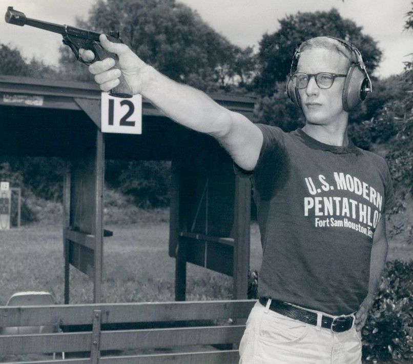 1970 Lt Charles Richards Fires Gun at Pentathlon Fort Sam Houston Press Photo